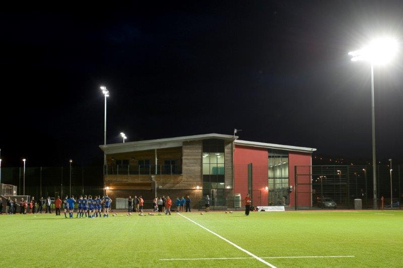 Same as above